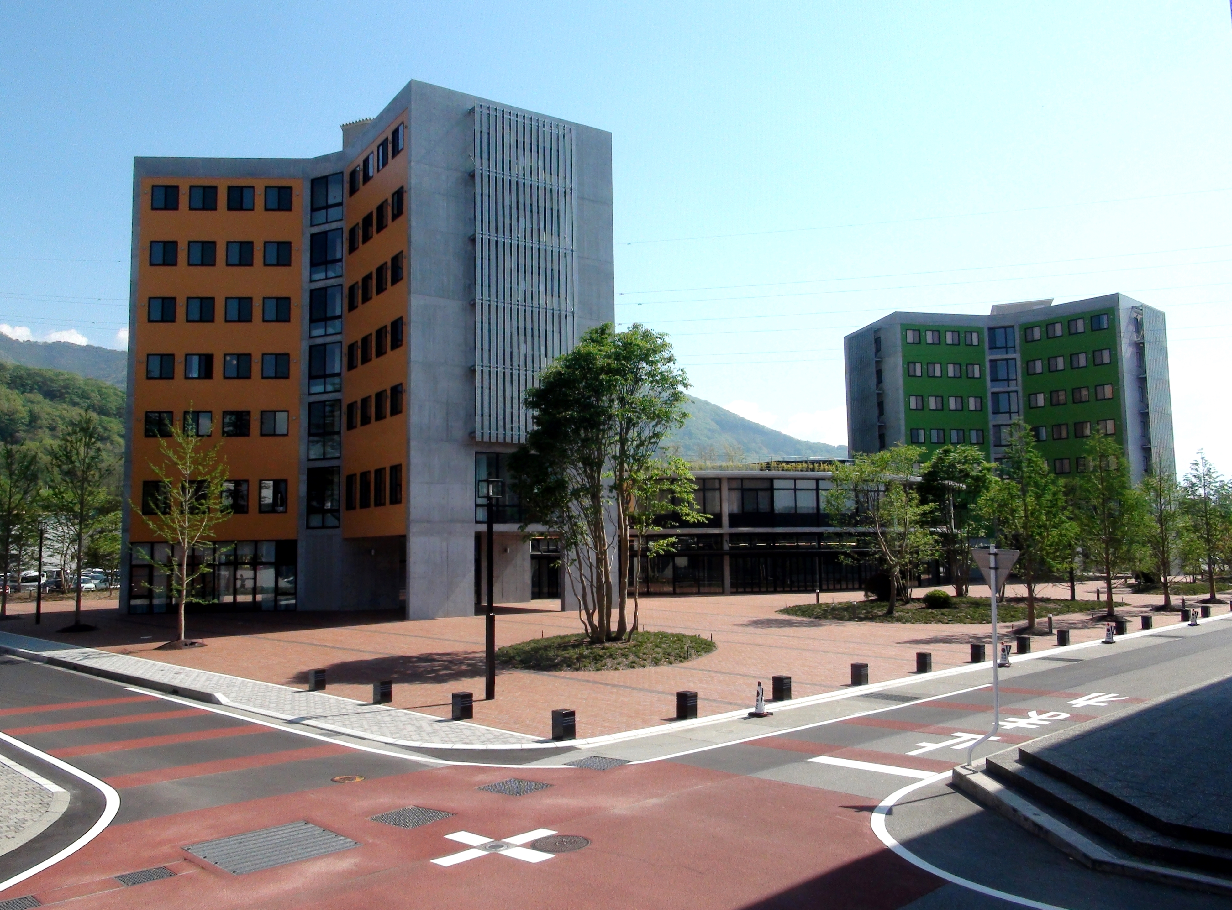 Yamanashi Gakuin University International College of Liberal Arts.Apr.2015